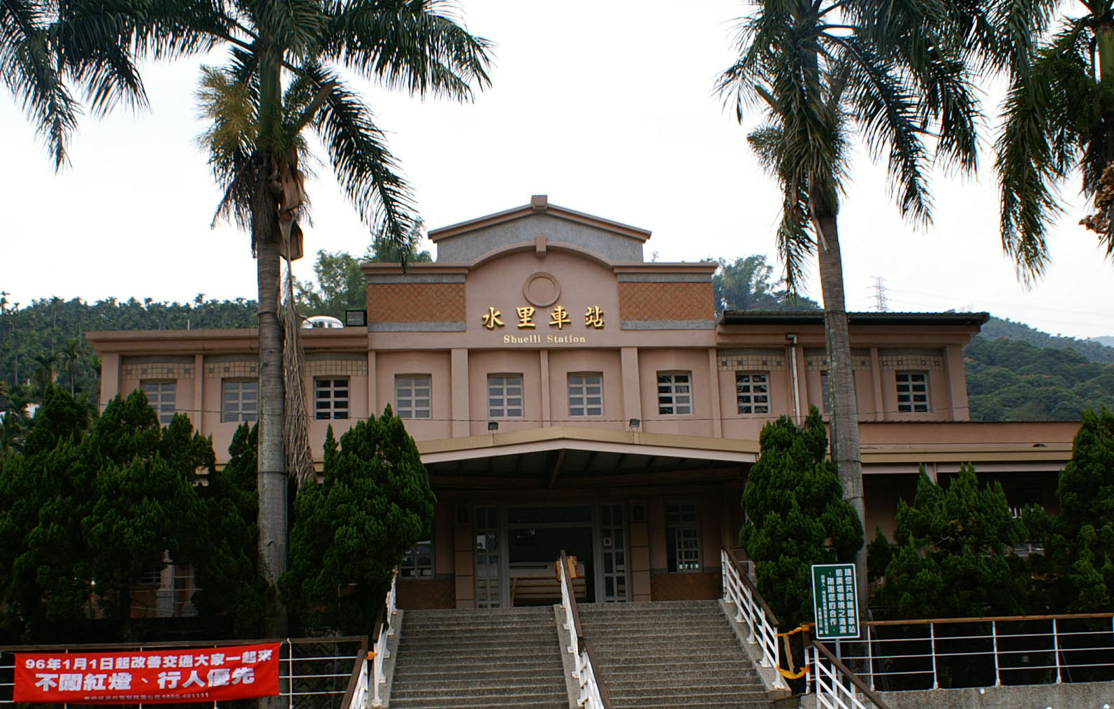 Shuili train station in Nantou County, Taiwan.